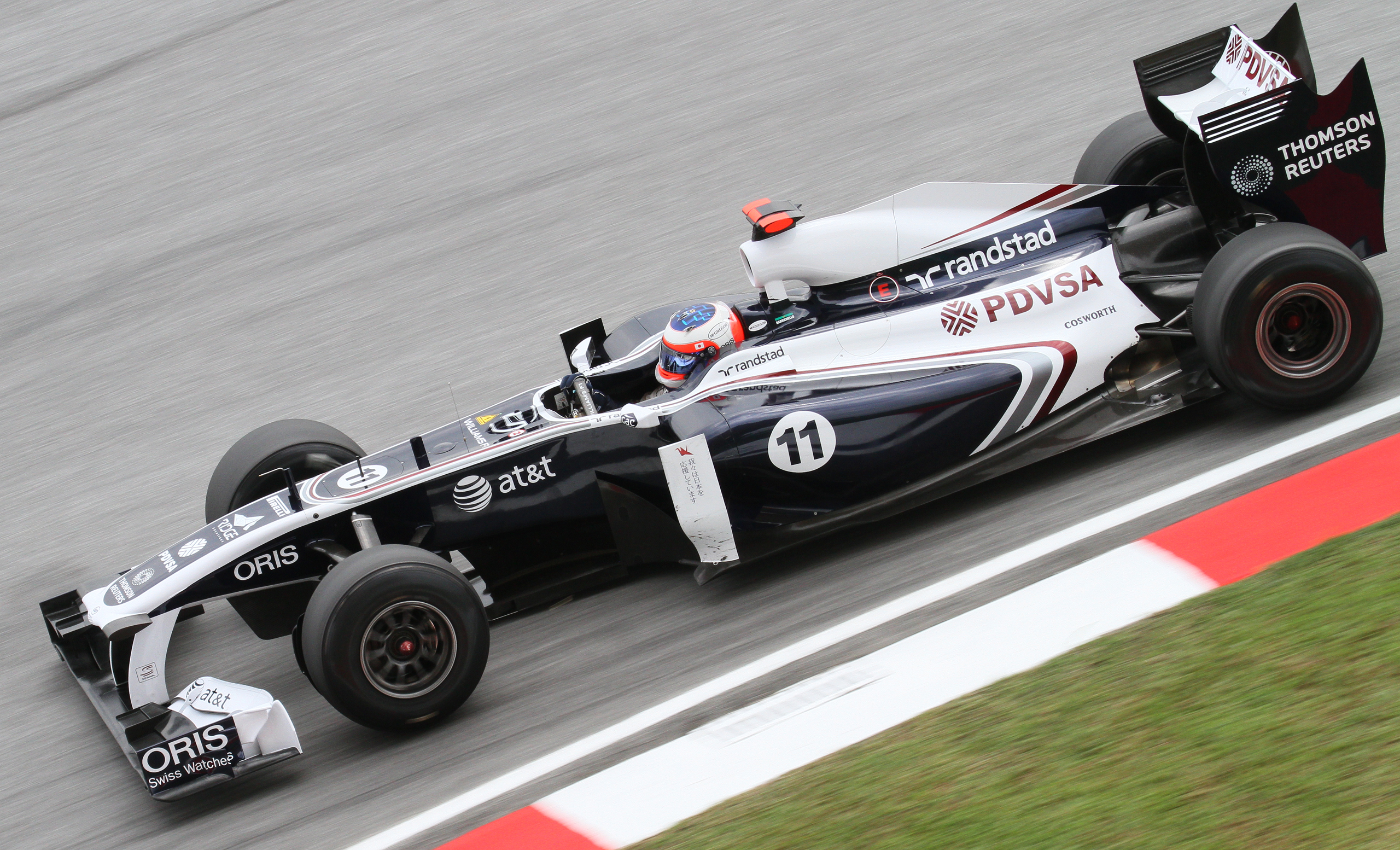 Formula One 2011 Rd.2 Malaysian GP: Rubens Barrichello (Williams) during the first practice session on Friday.